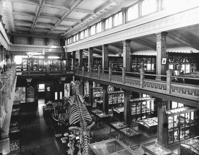 Photograph, Interior Redpath Museum, McGill University, Montreal, QC, 1893 (?), Wm. Notman & Son, Silver salts on glass - Gelatin dry plate process 25 x 20 cm